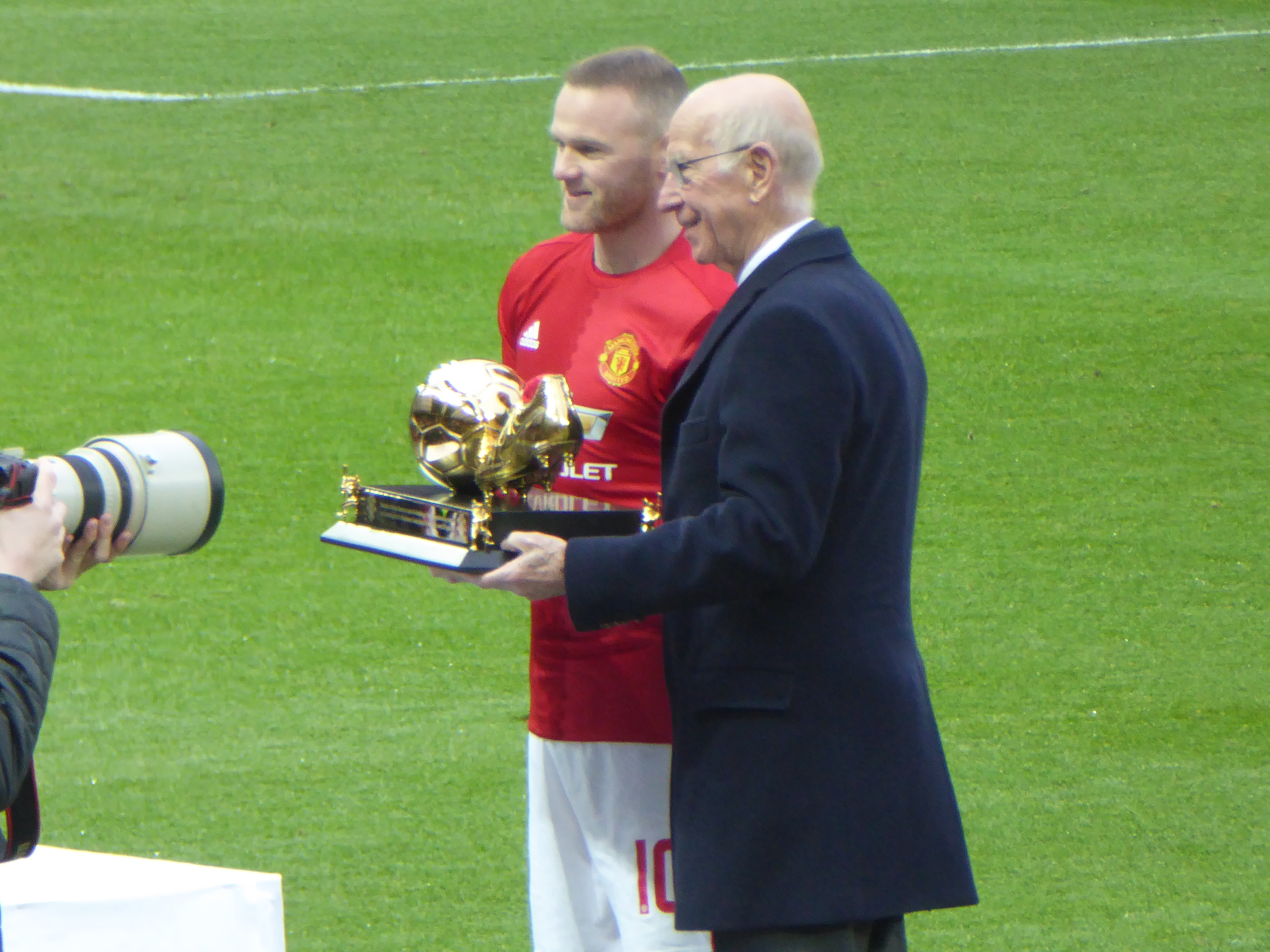 Manchester United v Wigan Athletic (4-0), FA Cup, Old Trafford, Manchester, Greater Manchester, England, 29 January 2017